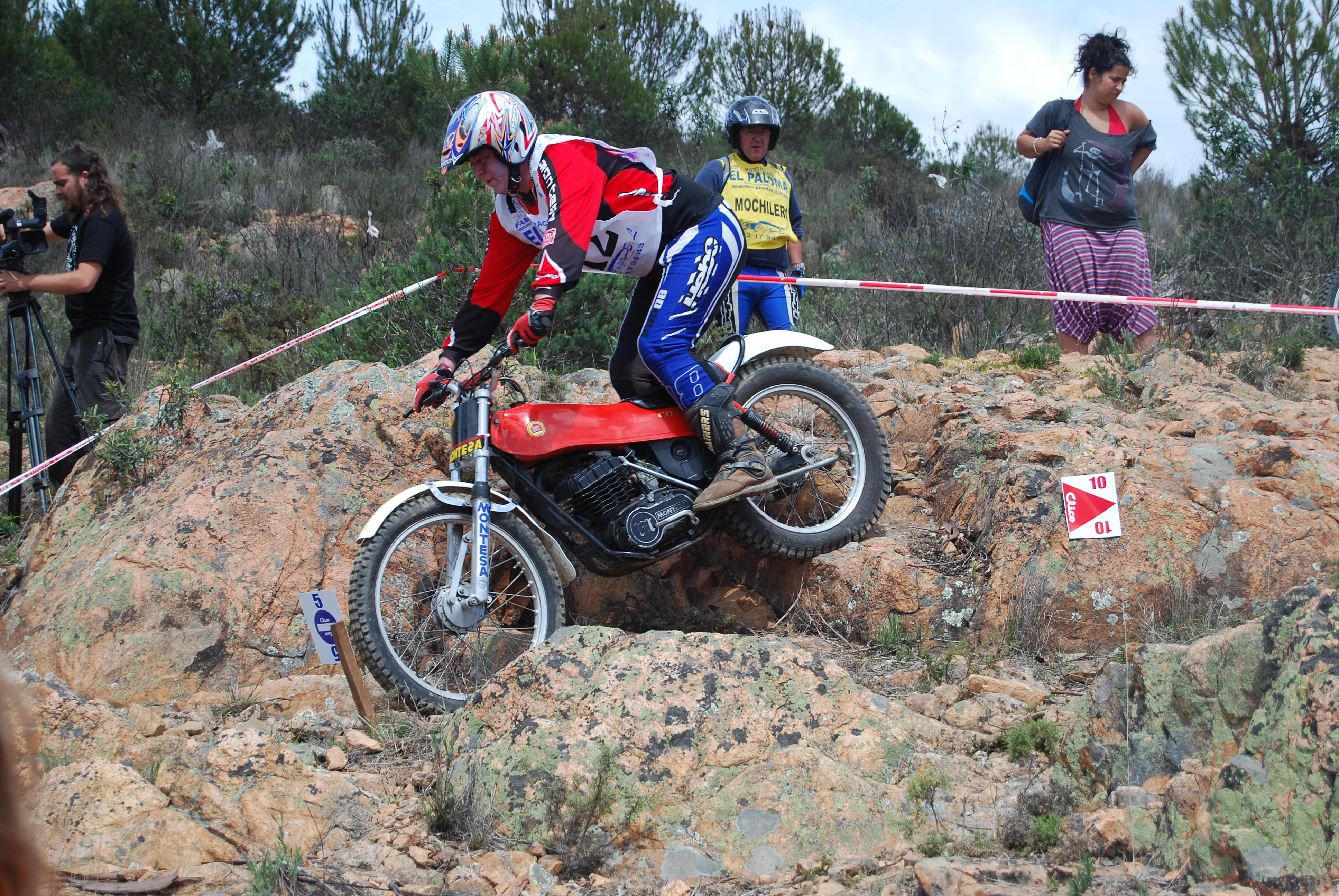 A rider on a Montesa Cota 348 on a classic trial